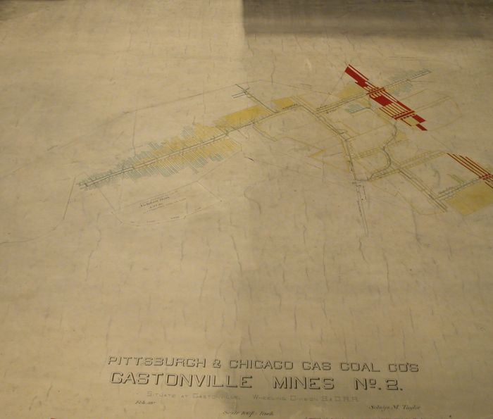 Image of a mine map of Gastonville Mine No. 2 of the Pittsburgh and Chicago Gas Coal Company. The left half has been cleaned and the right half remains uncleaned